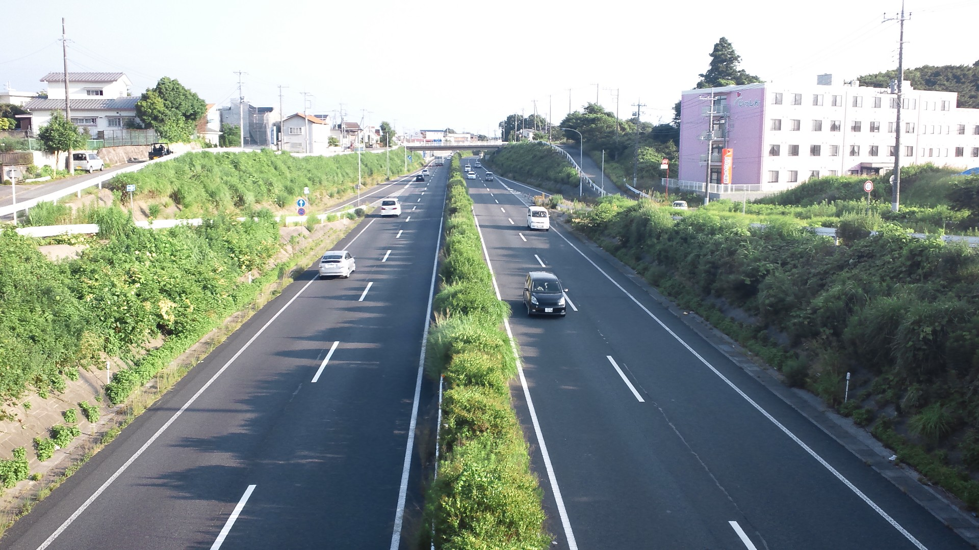 This picture was taken at Amakawa in Tsuchiura